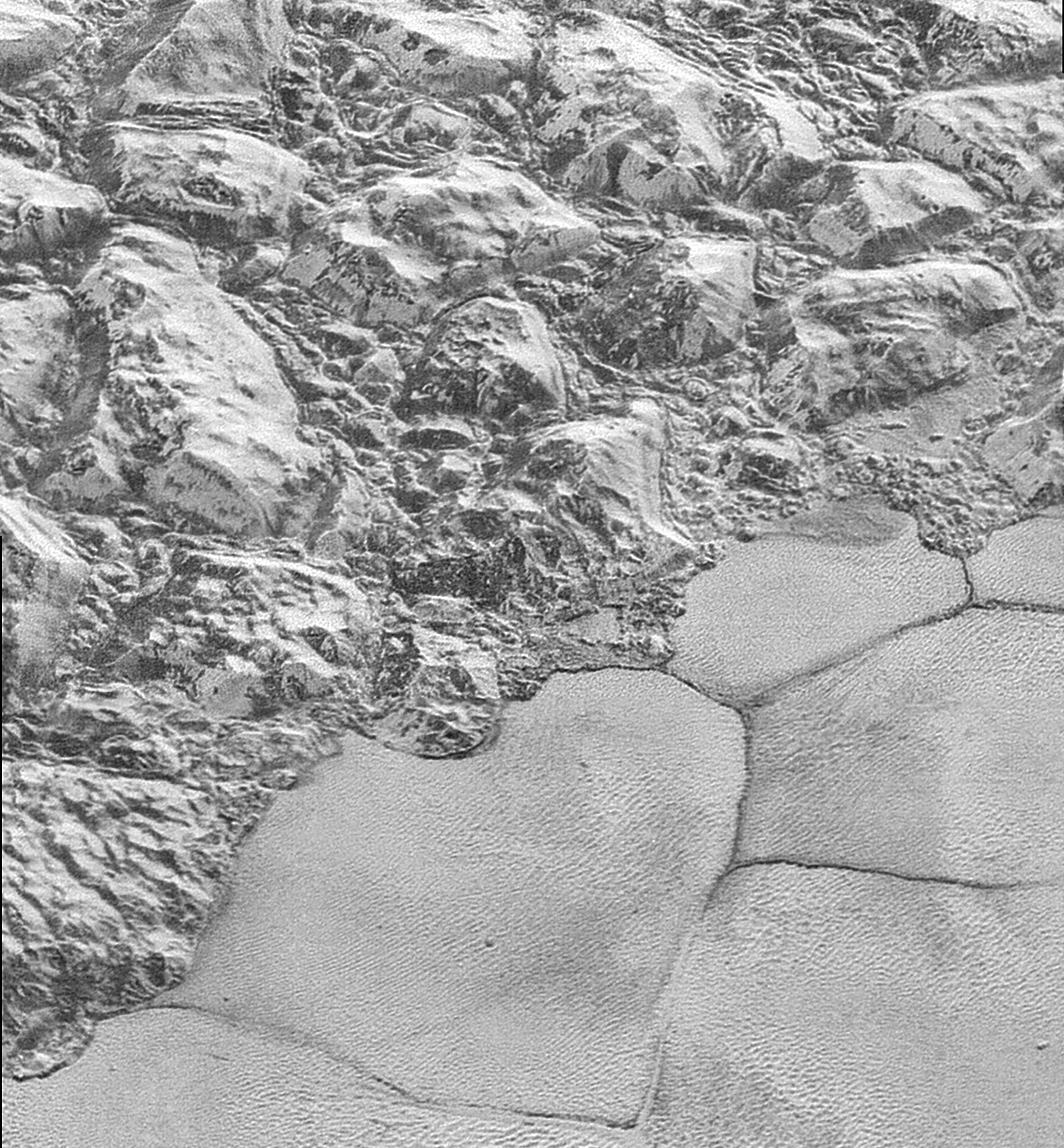 Original description: In this highest-resolution image from NASA's New Horizons spacecraft, great blocks of Pluto's water-ice crust appear jammed together in the informally named al-Idrisi mountains. Some mountain sides appear coated in dark material, while other sides are bright. Several sheer faces appear to show crustal layering, perhaps related to the layers seen in some of Pluto's crater walls. Other materials appear crushed between the mountains, as if these great blocks of water ice, some standing as much as 1.5 miles high, were jostled back and forth. The mountains end abruptly at the shoreline of the informally named Sputnik Planum, where the soft, nitrogen-rich ices of the plain form a nearly level surface, broken only by the fine trace work of striking, cellular boundaries and the textured surface of the plain's ices (which is possibly related to sunlight-driven ice sublimation). This view is about 50 miles wide. The top of the image is to Pluto's northwest. These images were made with the telescopic Long Range Reconnaissance Imager (LORRI) aboard New Horizons, in a timespan of about a minute centered on 11:36 UT on July 14 -- just about 15 minutes before New Horizons' closest approach to Pluto -- from a range of just 10,000 miles (17,000 kilometers). They were obtained with an unusual observing mode; instead of working in the usual "point and shoot," LORRI snapped pictures every three seconds while the Ralph/Multispectral Visual Imaging Camera (MVIC) aboard New Horizons was scanning the surface. This mode requires unusually short exposures to avoid blurring the images.